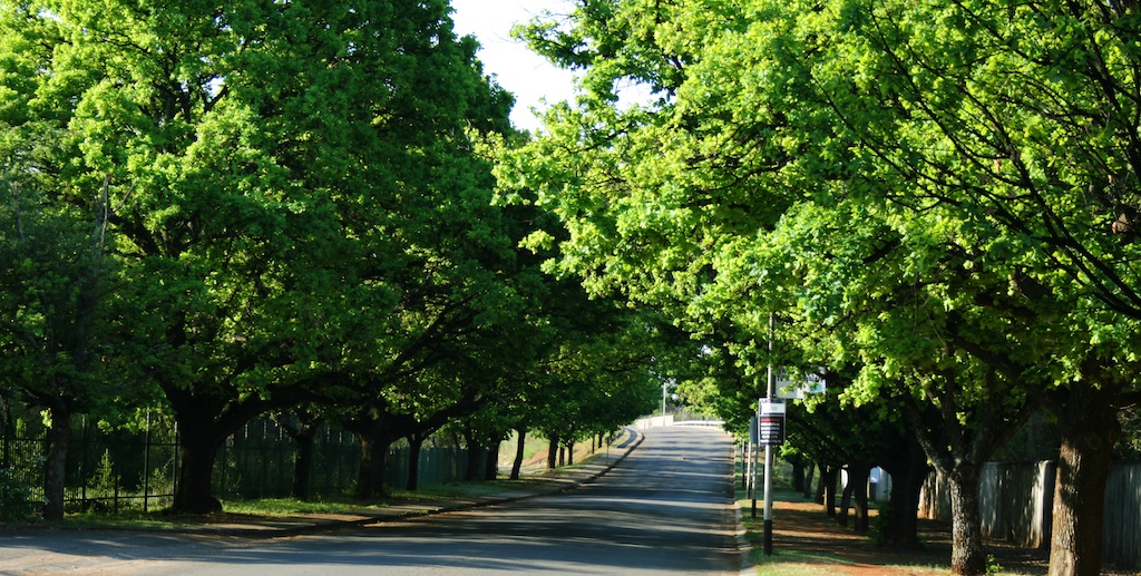 Oak Avenue, Potchefstroom This media shows a South African Protected Site with SAHRA file reference 9/2/256/0014.